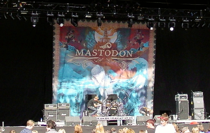 Mastodon stage at Carling Leeds Festival 2006